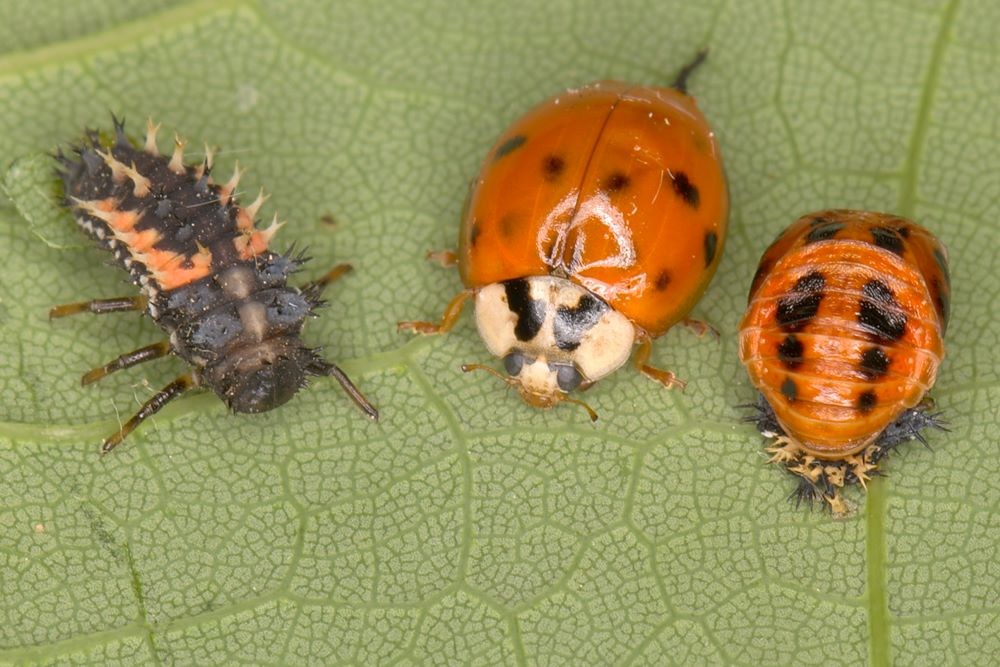 three developtmental states of a ladybug